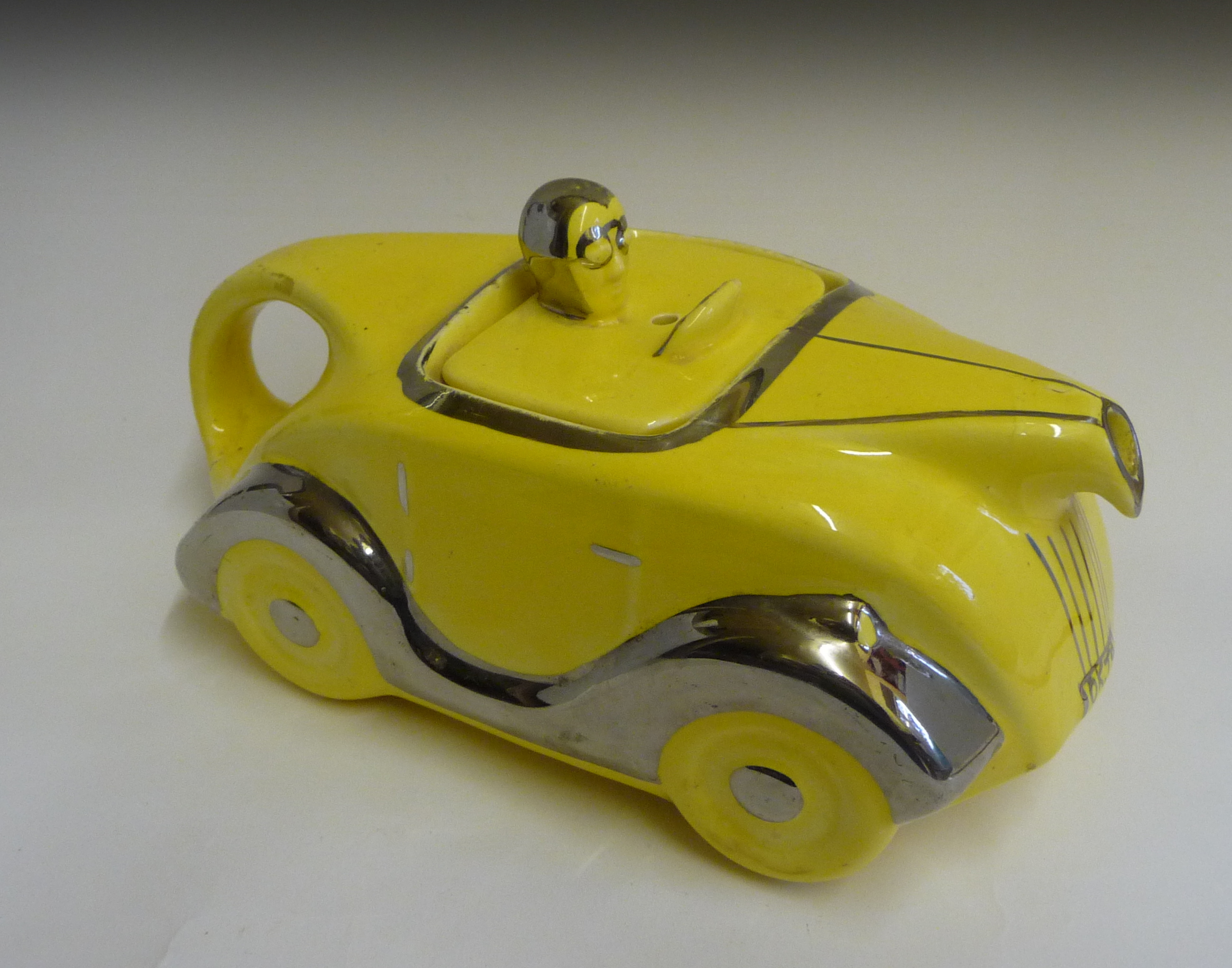 Art Deco Sadler racing car teapot from the 1930's